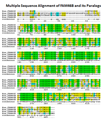 Multiple sequence alignment showing sequence similarity between the four paralogs in the FAM46 protein family.